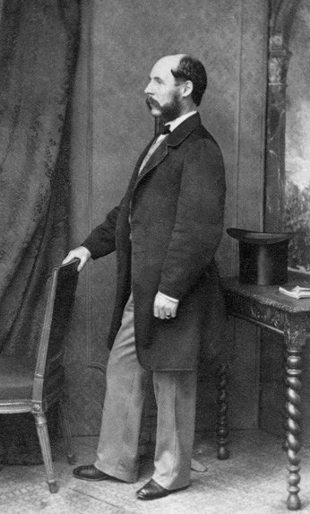 Percy Carpenter (1820 - 1895) — from his London calling card in 1862. Percy Carpenter was a painter active in the mid 19th-century, especially in British India and southeast Asia. He was also a curator at the British Museum Son of British artists William Hookham Carpenter and Margaret Sarah Carpenter. NPG Ax5093.